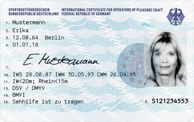 Certificate for Operators of Pleasure Craft, used in Germany since 2018, front side